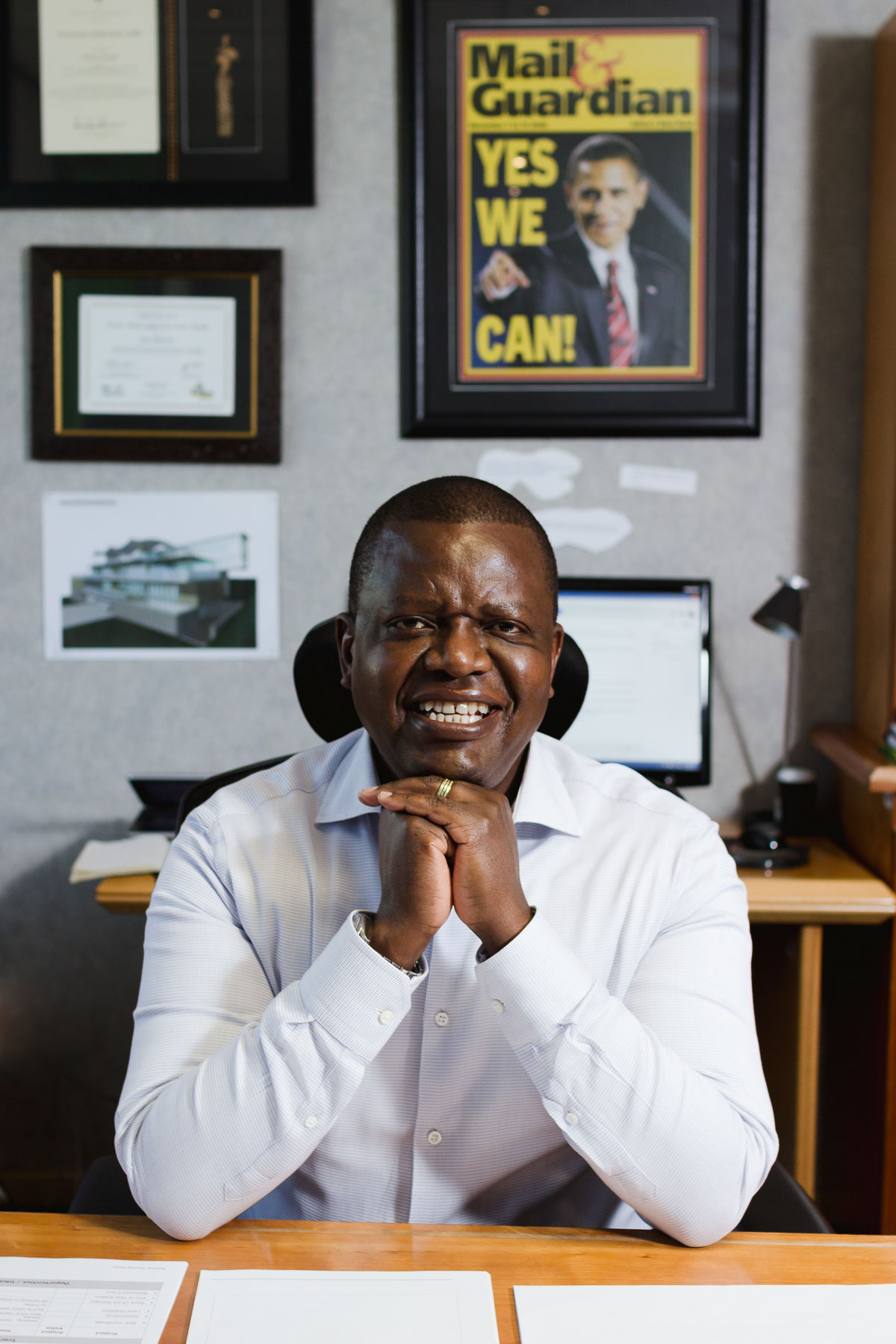 portrait taken at the Mail & Guardian Offices